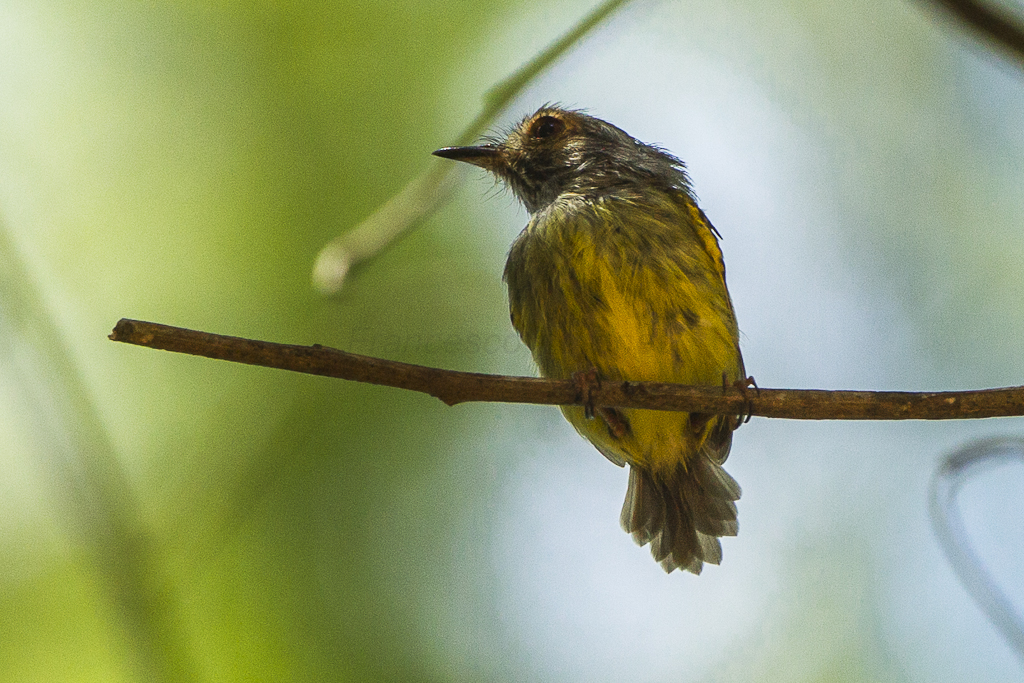 Eared Pygmy-Tyrant - REGUA - Brazil_S4E1606